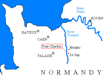 Map showing location of Pont-Chardon in Normandy, in the 11th century held by Robert de Pont-Chardon (Punchardon) who took part in the Norman Conquest of England in 1066 and was granted lands in North Devon (incl. Heanton Punchardon) by his overlord Baldwin the Sheriff (d.1090), alias Baldwin de Meulles or Baldwin du Sap, both of which manors (Meulles and Le Sap) were near Pont-Chardon in Normandy.